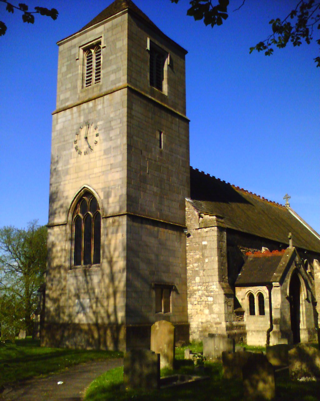 St Hybald's Church, Hibaldstow Photo by Asterion talk to me